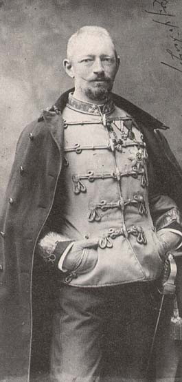 Joseph Karl Ludwig, Archduke of Austria, 1833-1905, son of Joseph Archduke of Austria (Palatine of Hungary) and Maria Dorothea of Wuerttemberg.